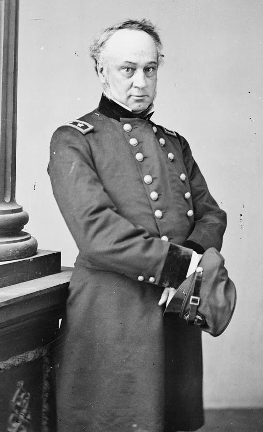 Portrait of Maj. Gen. Henry W. Halleck, officer of the Federal Army.